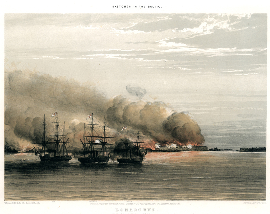 Print shows the Battle of Bomarsund.